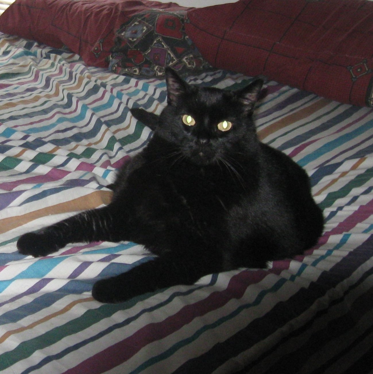 Black cat on bed with gleaming eyes.